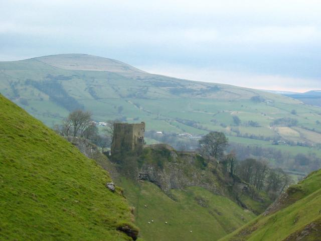 Peveril Castle An 11th-century stone keep and bailey fortress.